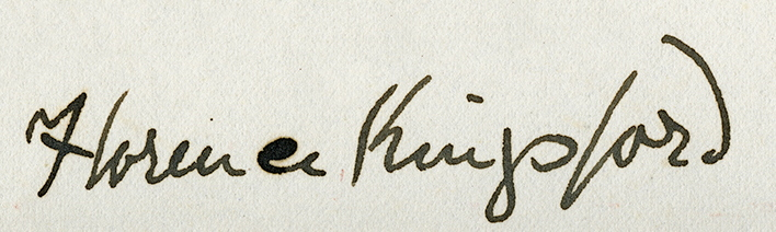 Letter from Florence Kate Kingsford to St John Hornby